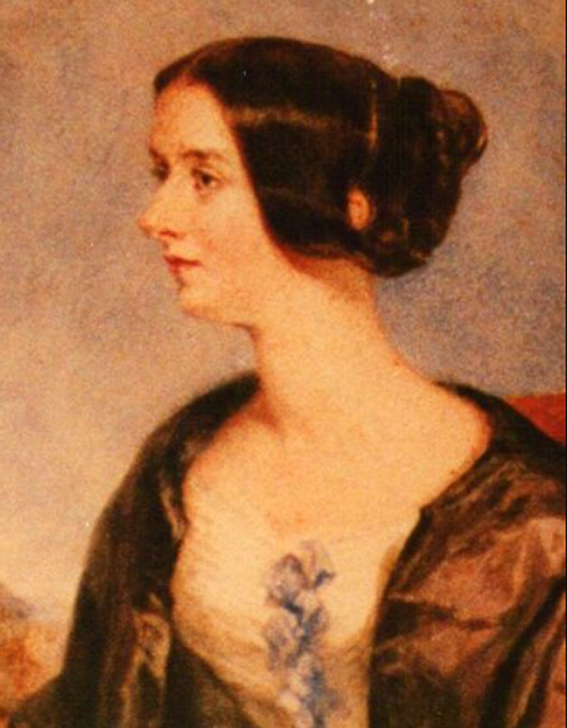 Caroline Ramsay Wigan, wife of Rev William Lewis Wigan who owned Larkfield House